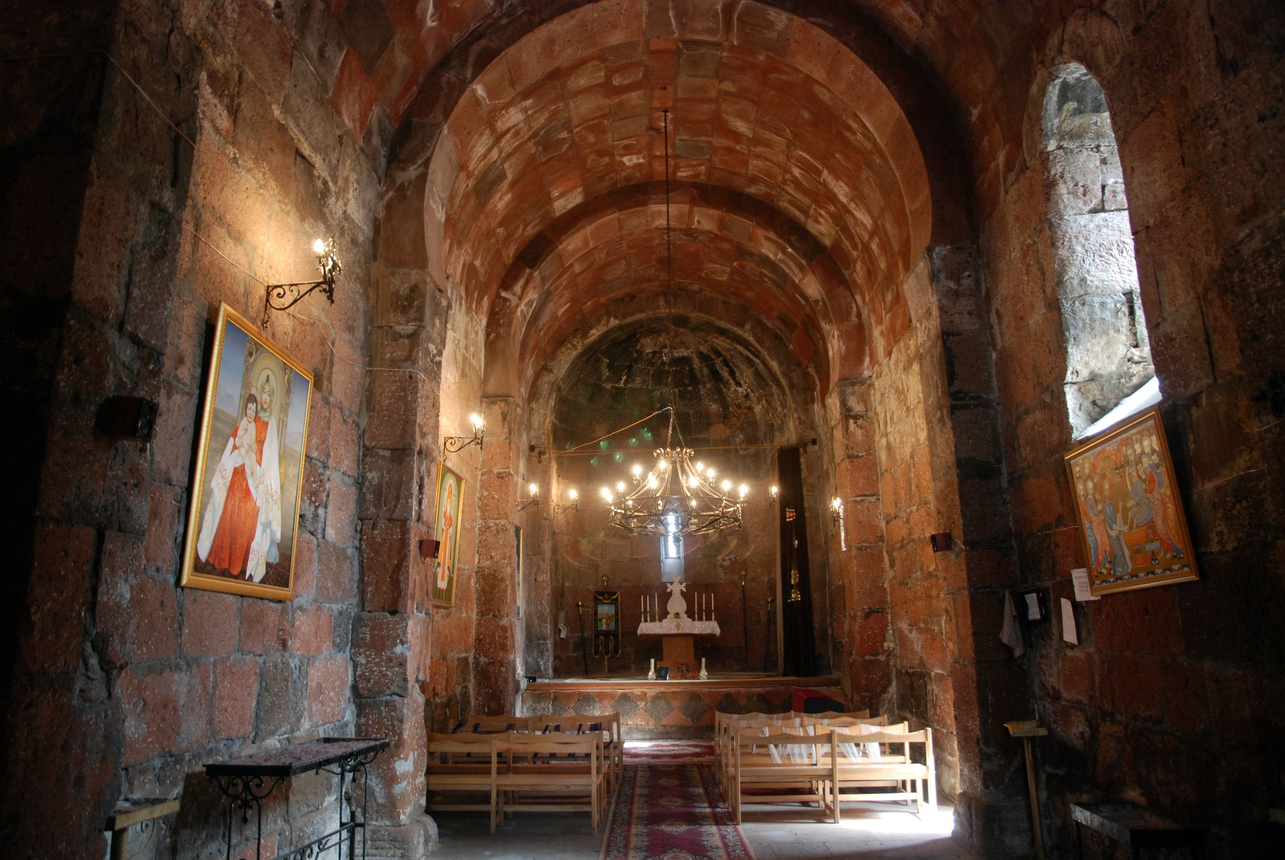 Lernakert, church